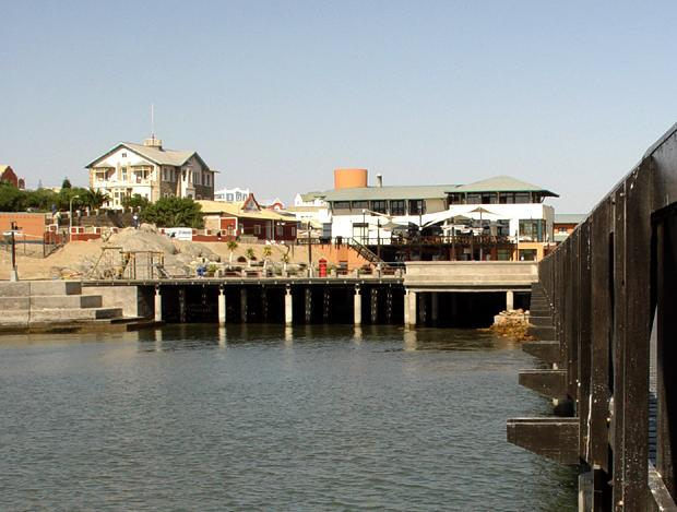 Waterfront at Lüderitz, Namibia